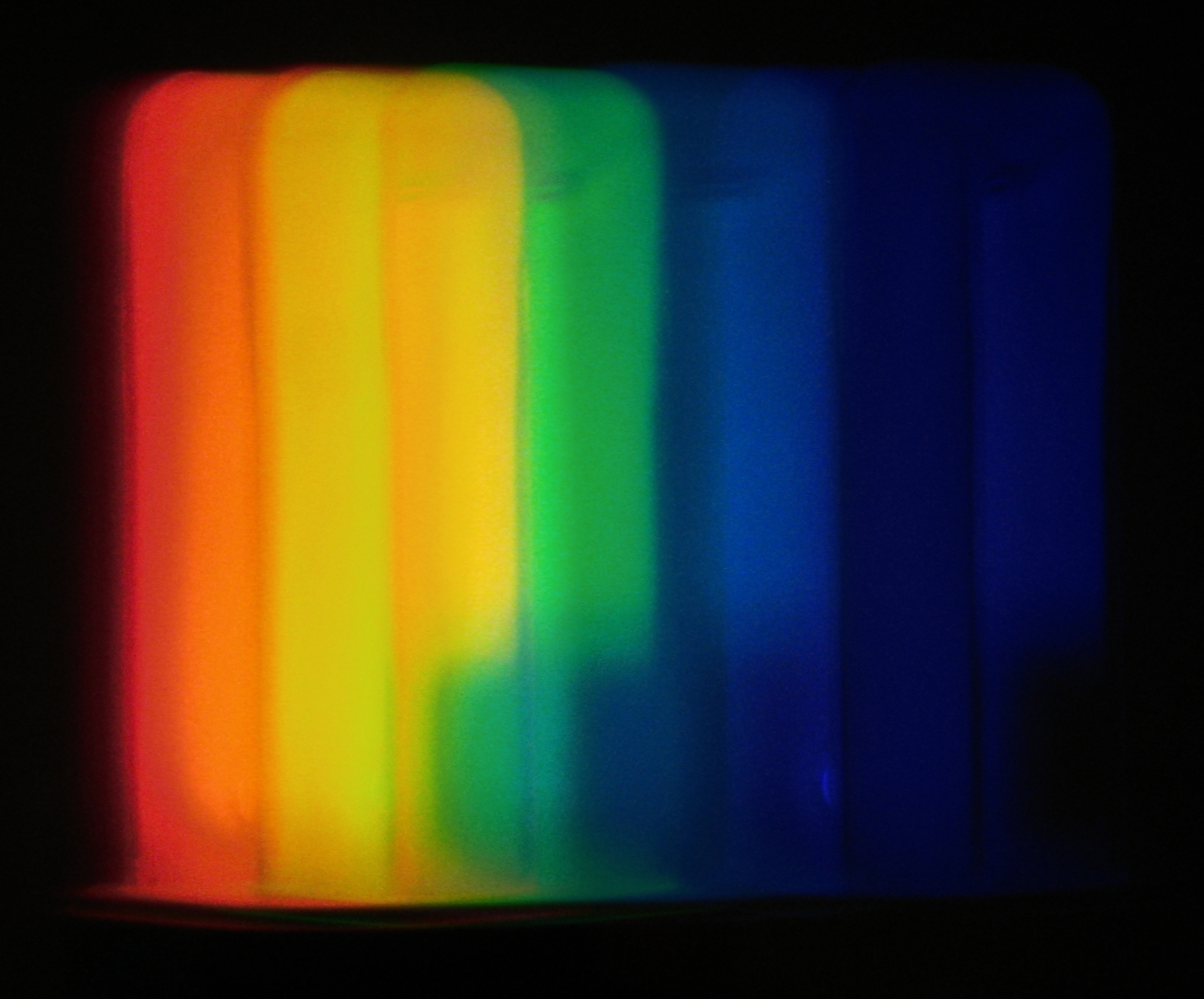 Light dispersion of a 12 Volt compact fluorescent lamp seen through a amici direct-vision prism